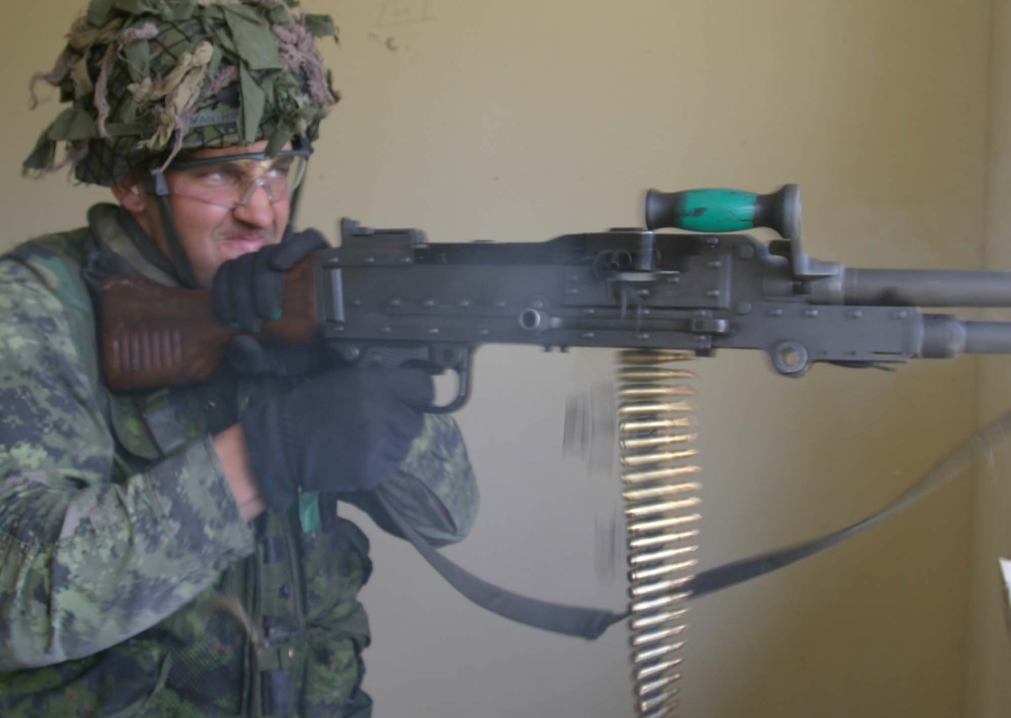 Private Ryan VanHorlick, C-6 gunner for 8th Platoon, C Coy., 3rd PPCLI, grins and lets his weapon lay suppression fire during an urban assault at the 13th MEU's MAGTFEX. The exercise is part of the MEU's pre-deployment work-ups for the WESTPAC-05 deployment. Photo by: Cpl. Andy Hurt Photo ID: 200546161514 Submitting Unit: 13th MEU Photo Date:04/02/2005